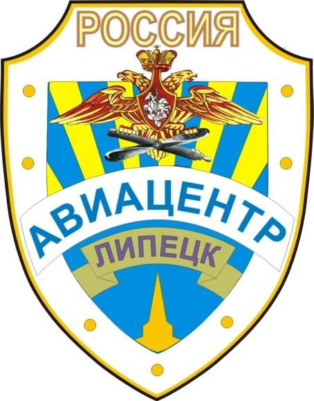 Logo of the Lipetsk Air Base